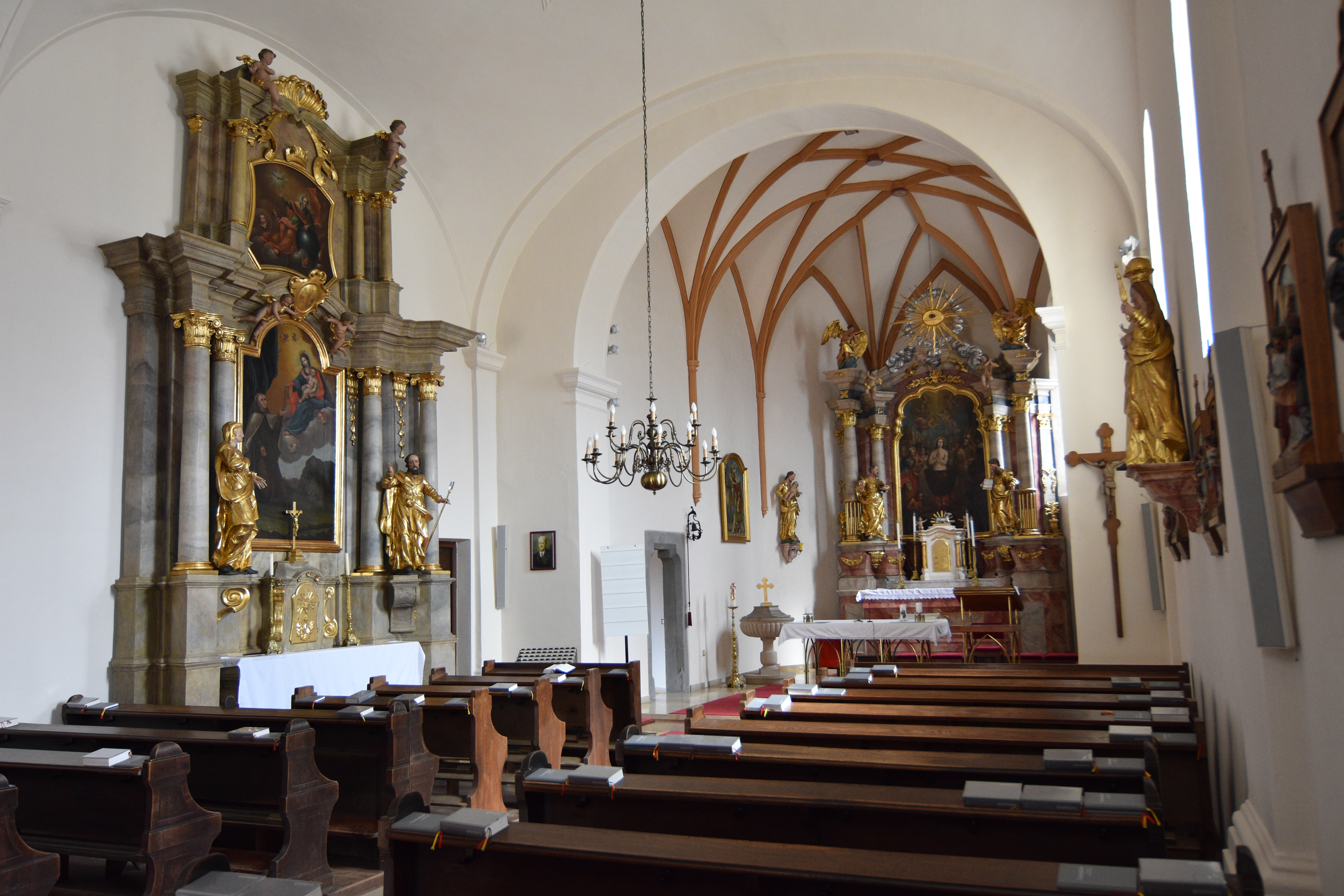 Saint Vitus Church (Unterbildein) - Interior